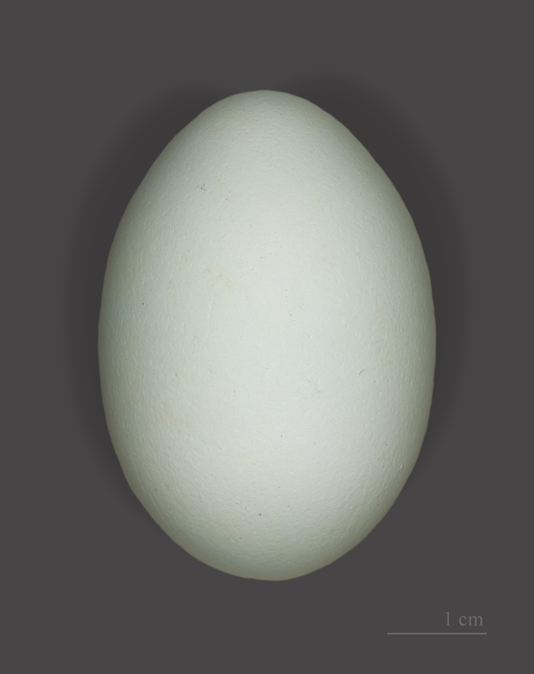 Egg of Cattle Egret. Former Collection of Jacques Perrin de Brichambaut; Collector René de Naurois. Locality: North West Morocco